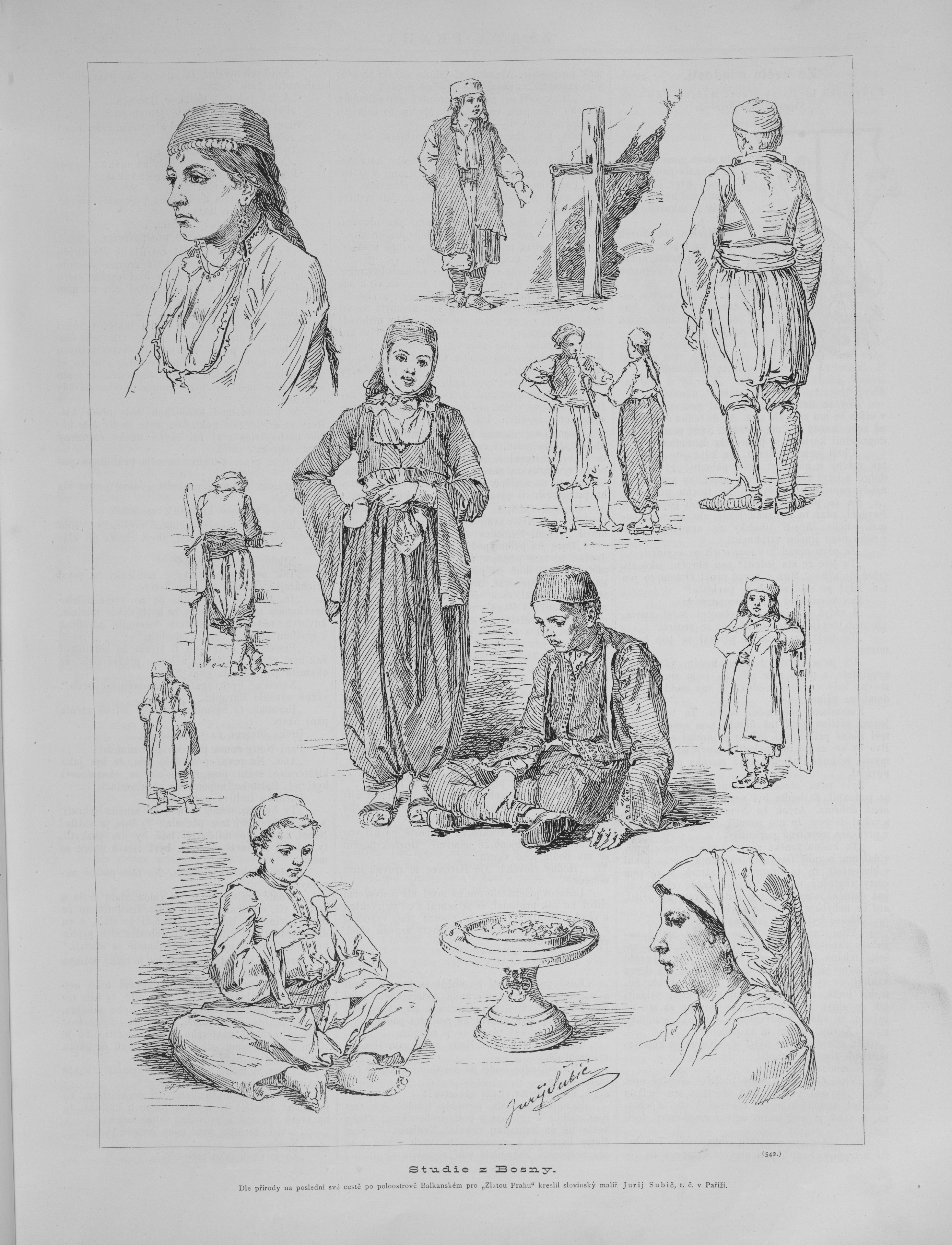 "Studies from Bosnia" - portraits of ordinary Bosnian people, made in or before 1884.